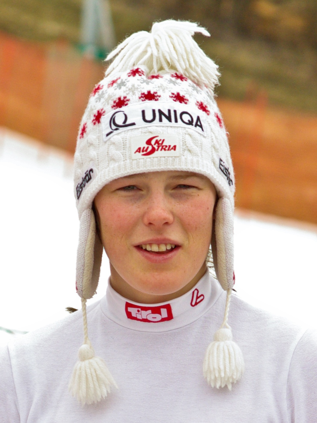 Austrian alpine skier Carmen Thalmann at the Austrian Championships 2008 in Haus im Ennstal.